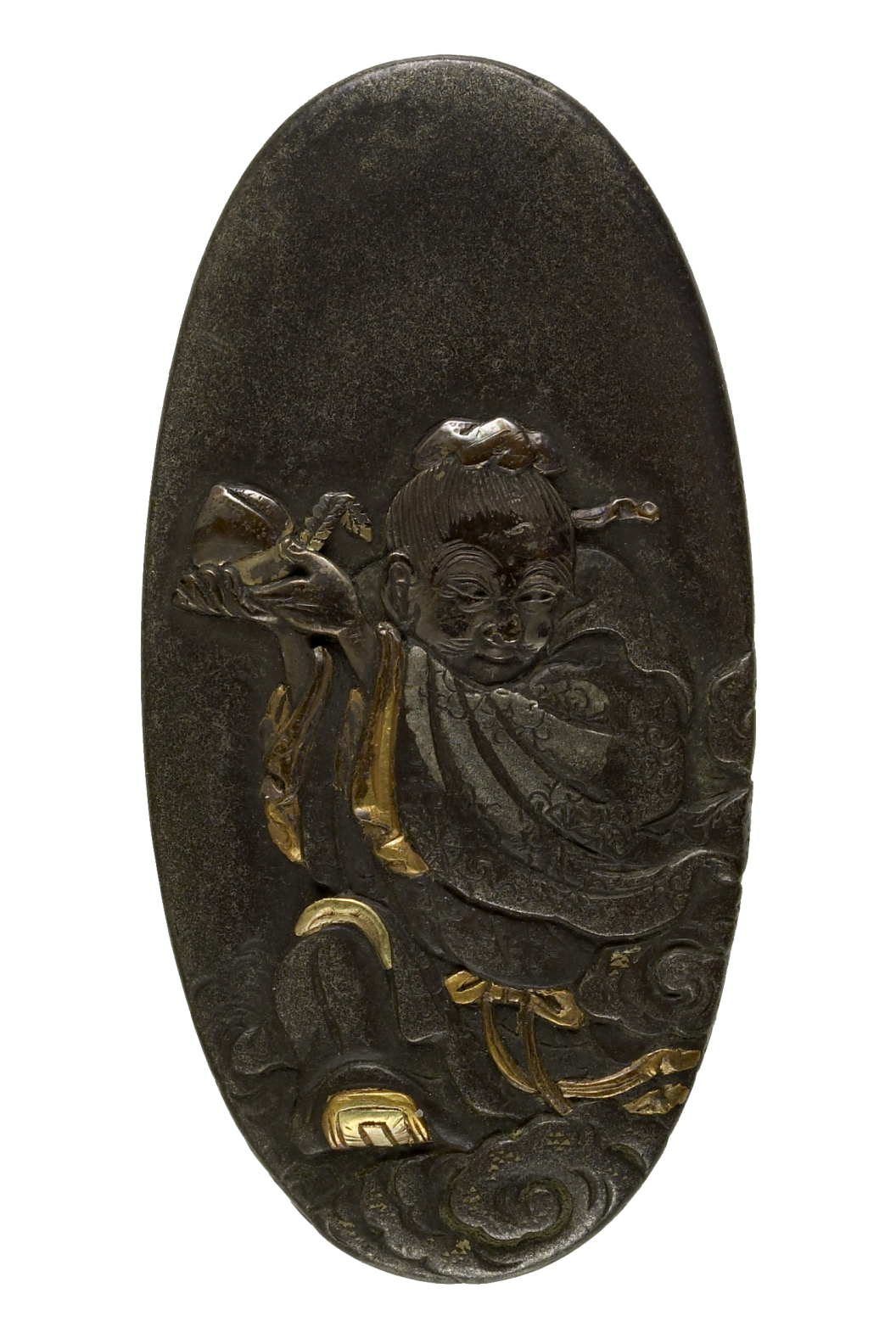 The Chinese immortal Tôbôsaku (Ch. Tung Fang-So [Dong Fang Suo]) is said to have been reincarnated six times from the 27th century BC to the 2nd century BC. He is shown standing on clouds and holding a peach, a symbol of longevity. This is part of a set with Walters 51.1034.